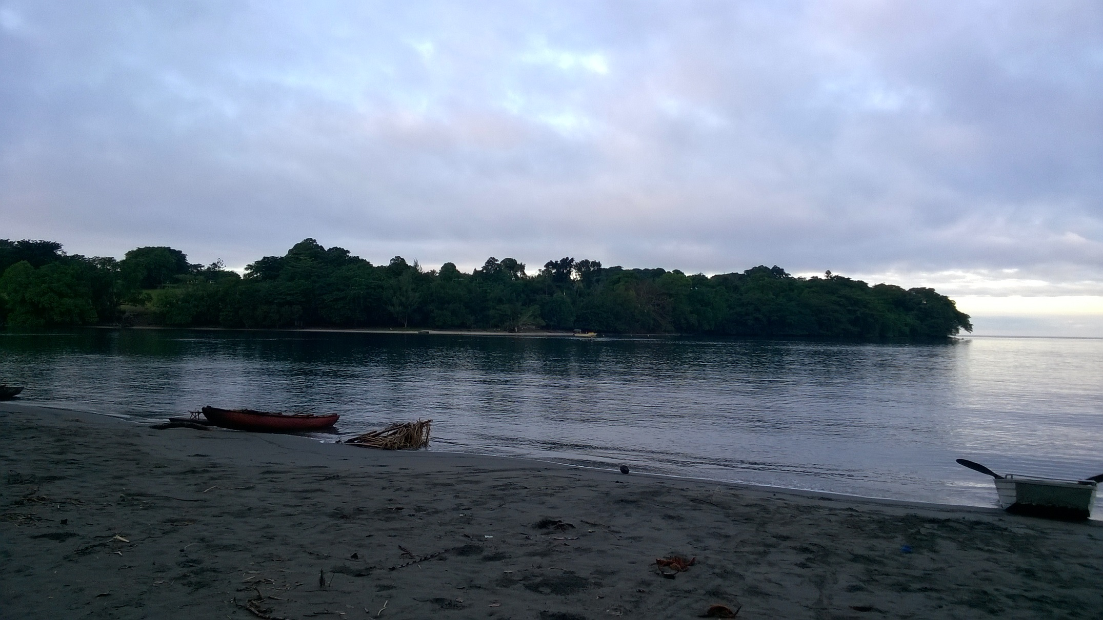 Photograph of Tangoa Island in Vanuatu